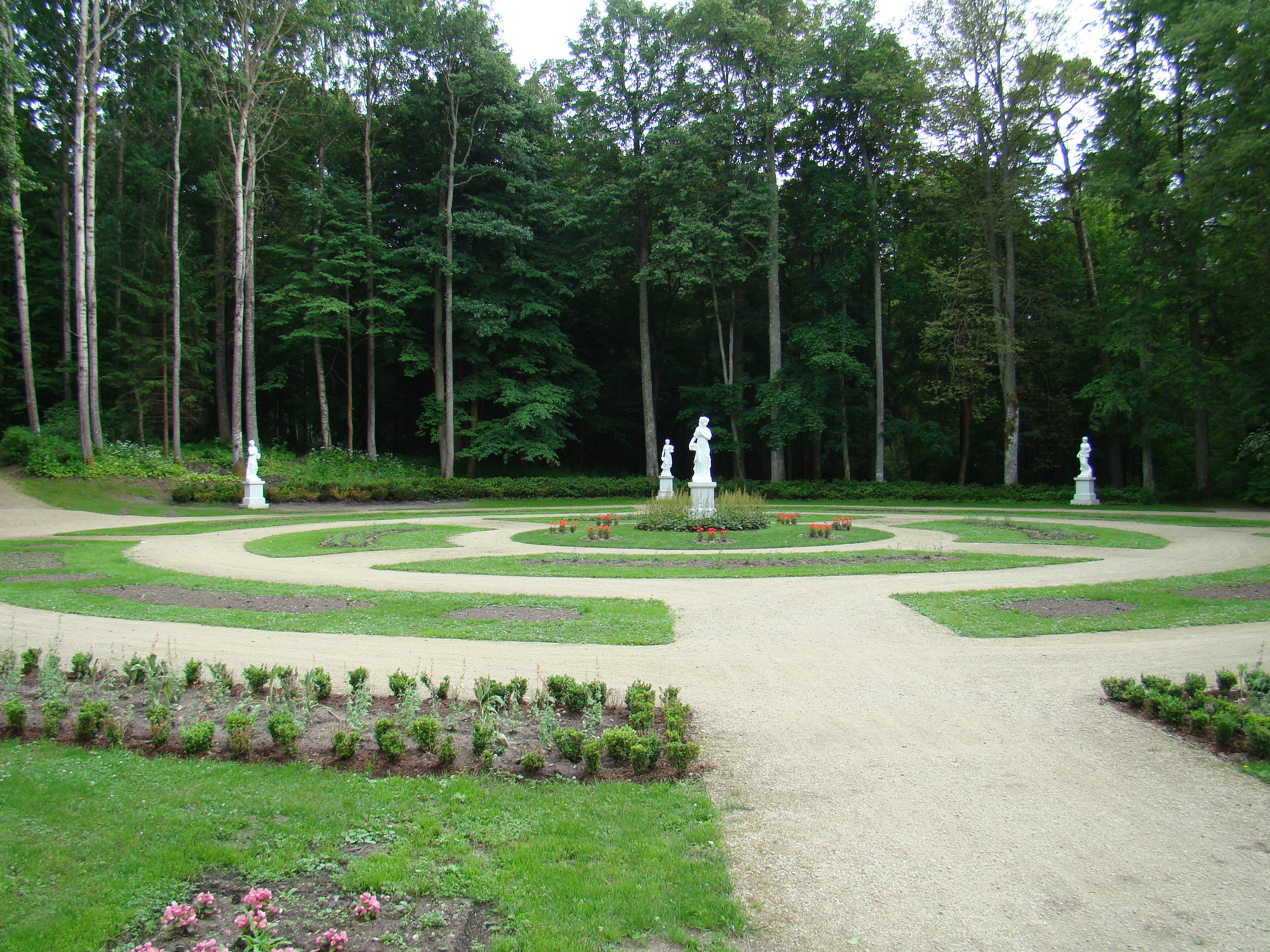 Palanga garden by Édouard André